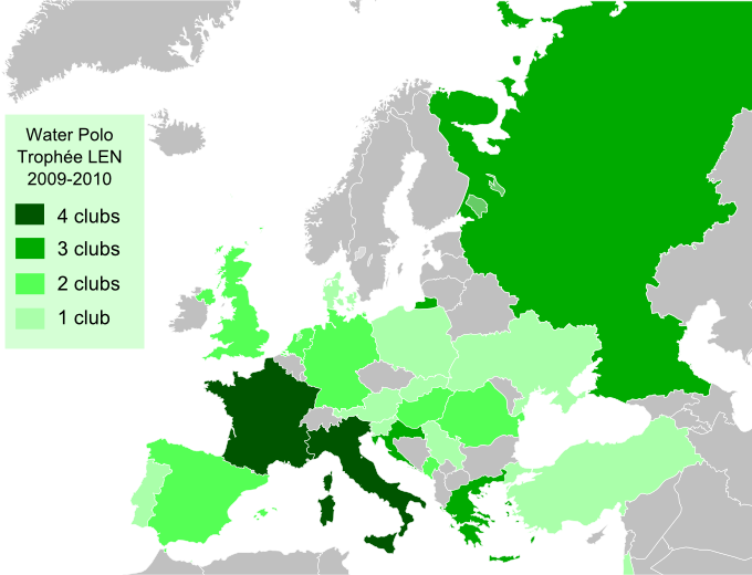 Participating countries of the Water Polo Male LEN Trophy 2009-2010 by number of clubs who appeared at the first two qualification rounds.